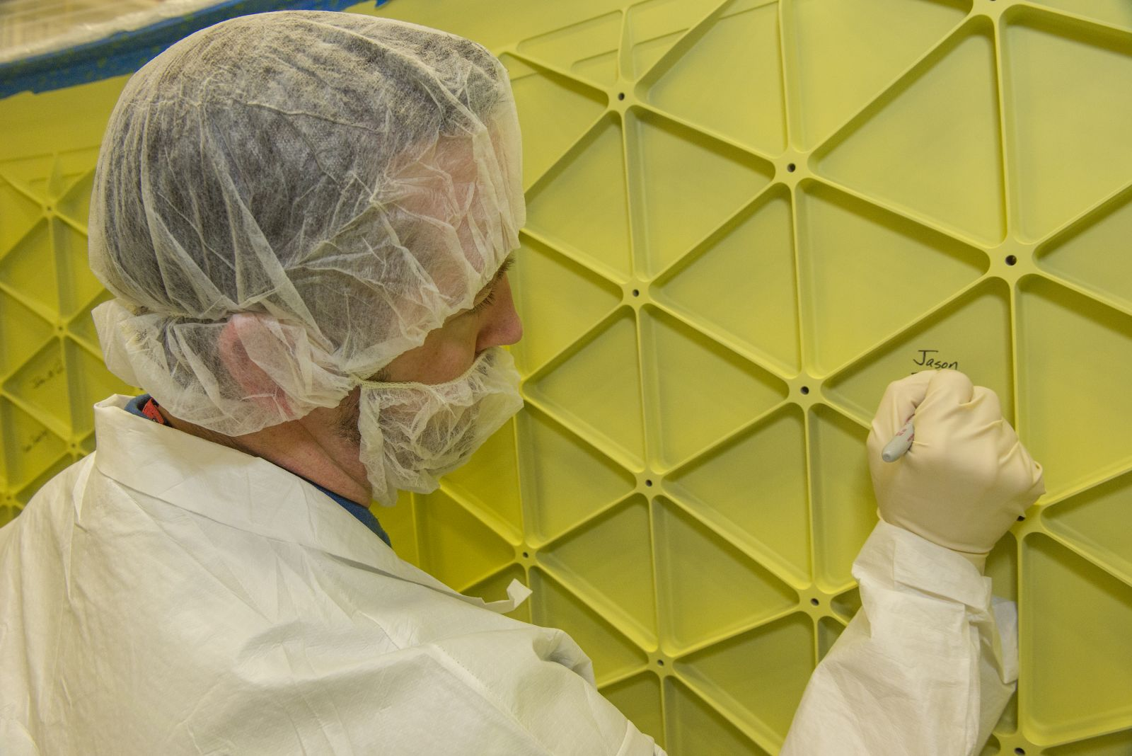 The isogrid on the interior of the adapter that will connect the Orion spacecraft to a United Launch Alliance Delta IV rocket for Exploration Flight Test (EFT)-1.